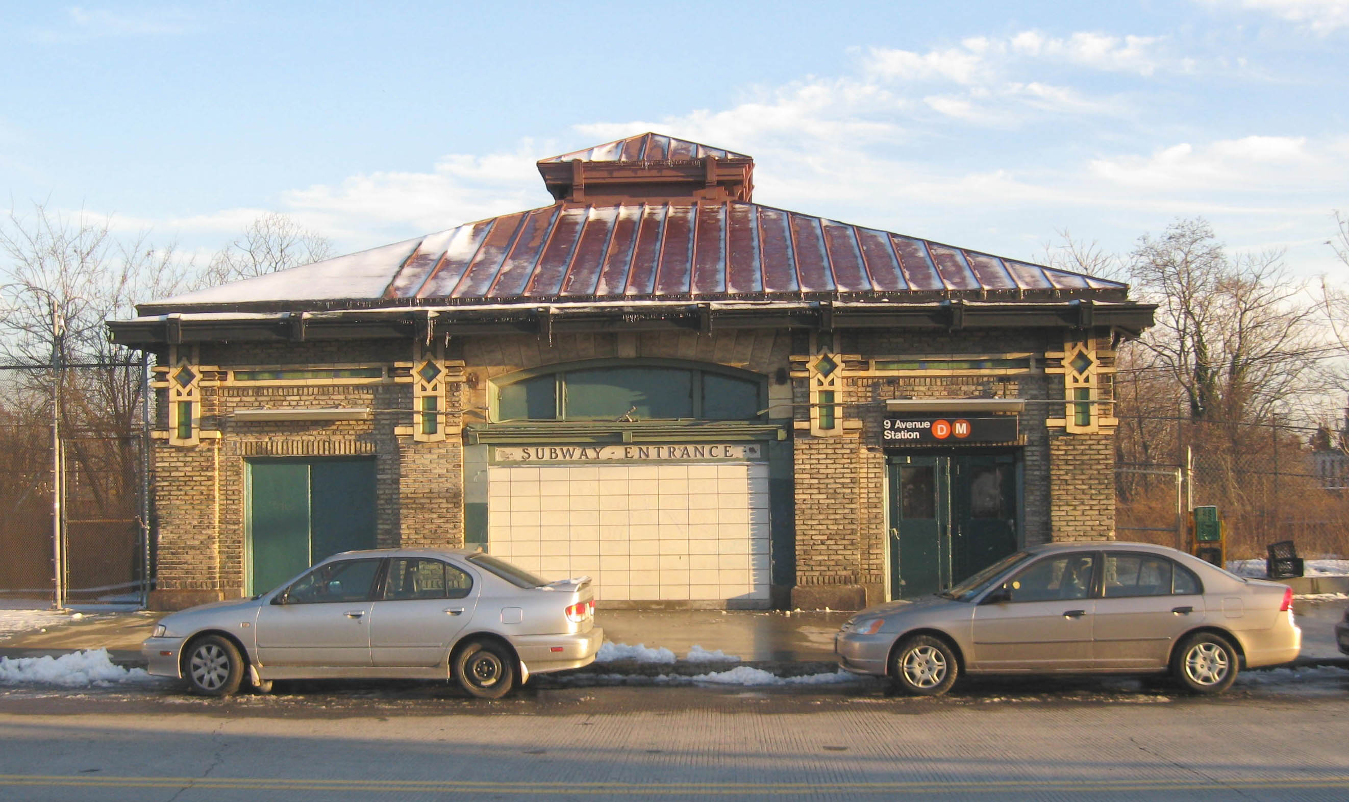 Looking east across 9th Avenue at Ninth Avenue (BMT West End Line) station house on a sunny late afternoon. See File:9Av BMT nb platform jeh.JPG for the platform